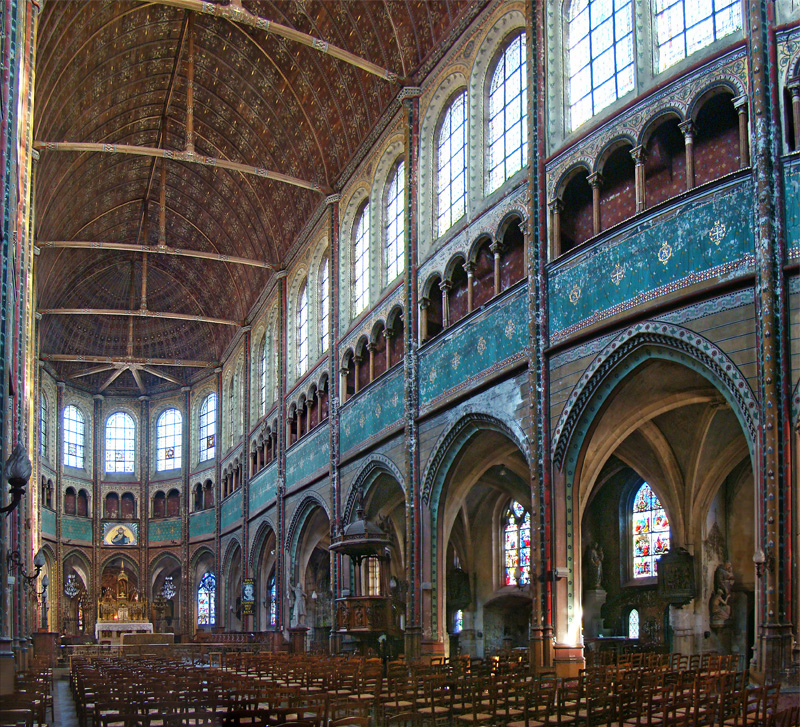 Church of Saint Aignan, Chartres, Eure-et-Loir, Centre, France.